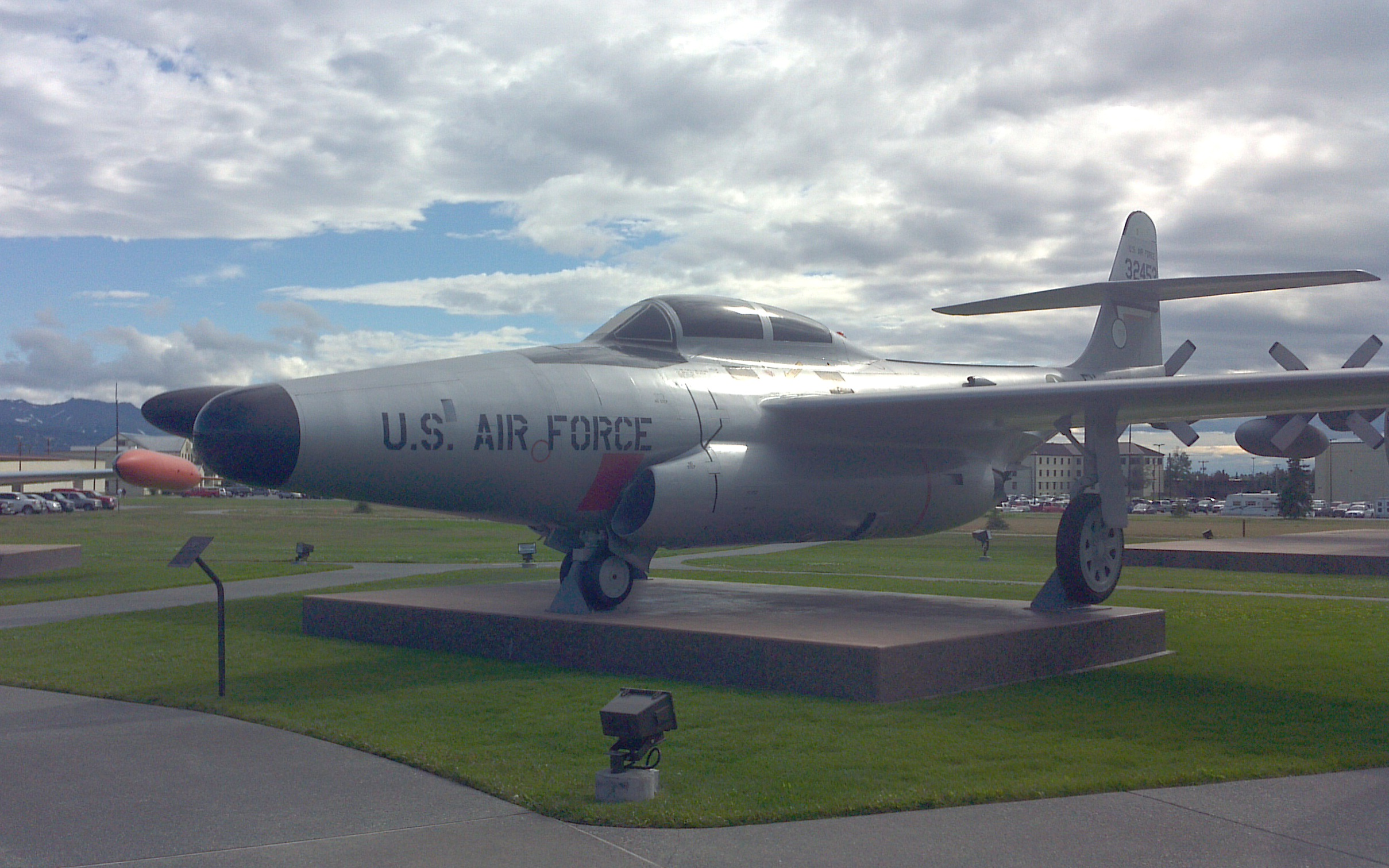 Northrop F-89J Scorpion in JBER